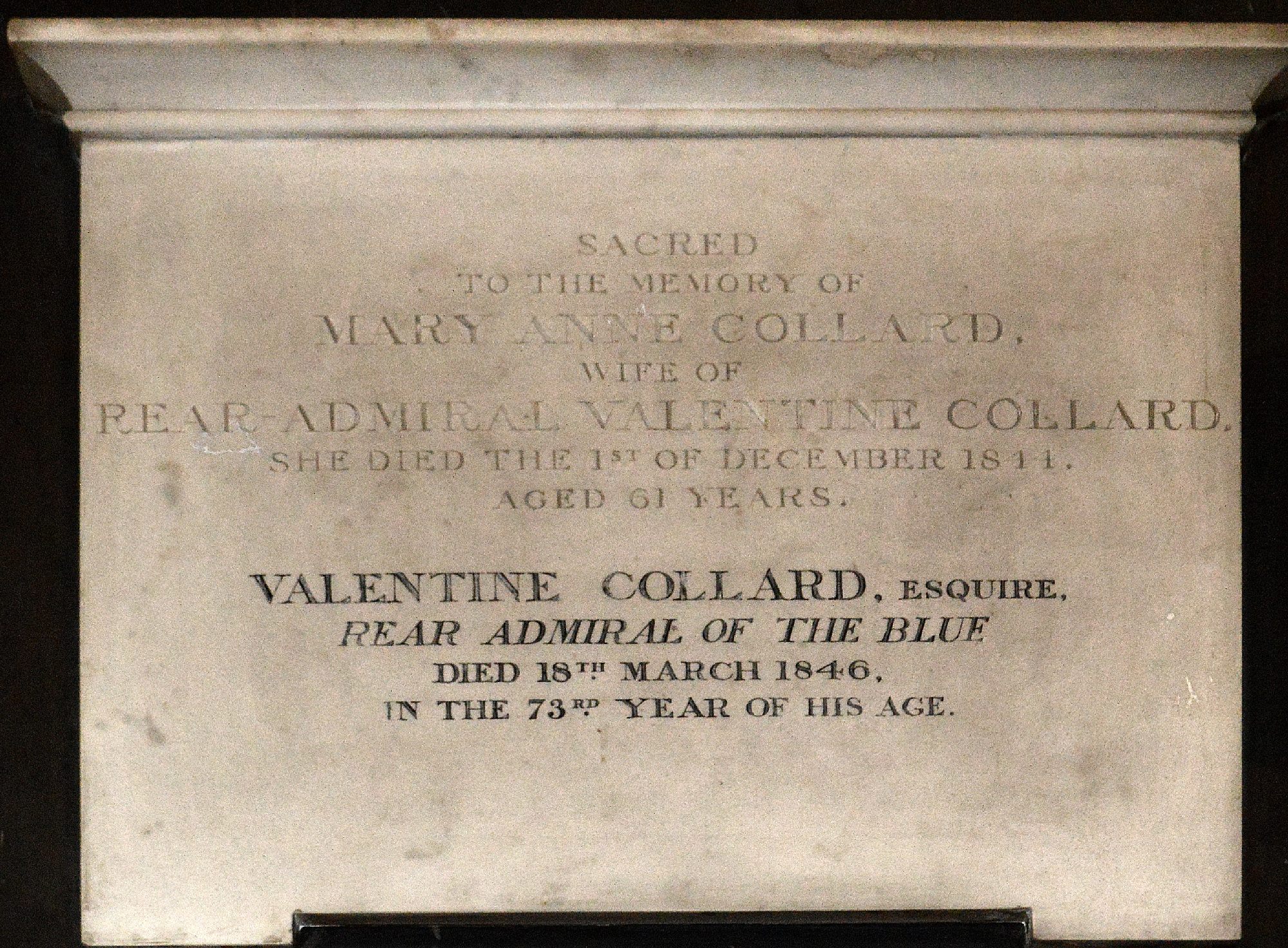 Monument for Mary Anne Collard, d 1844, & husband Valentine Collard, d 1846 at St Mary's church, Teddington. He was Rear Admiral of the Blue.